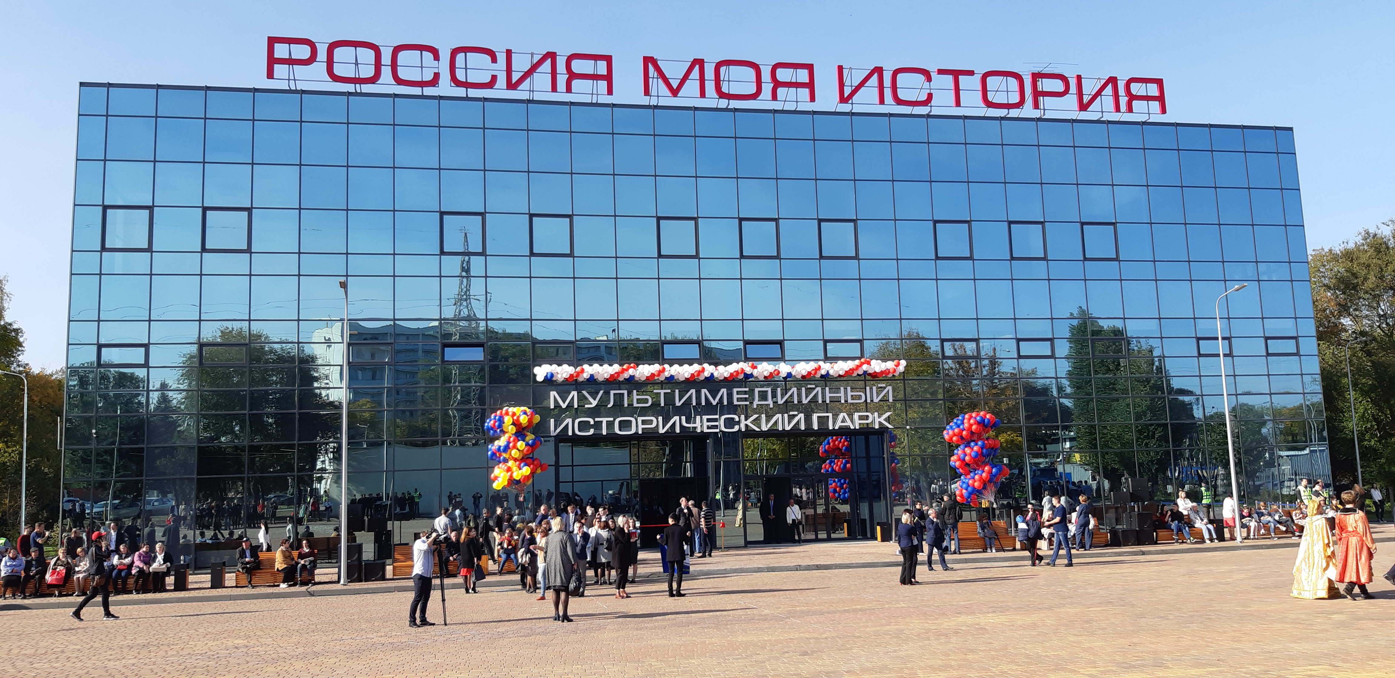 The opening of the park Russia is my history in Rostov-on-Don